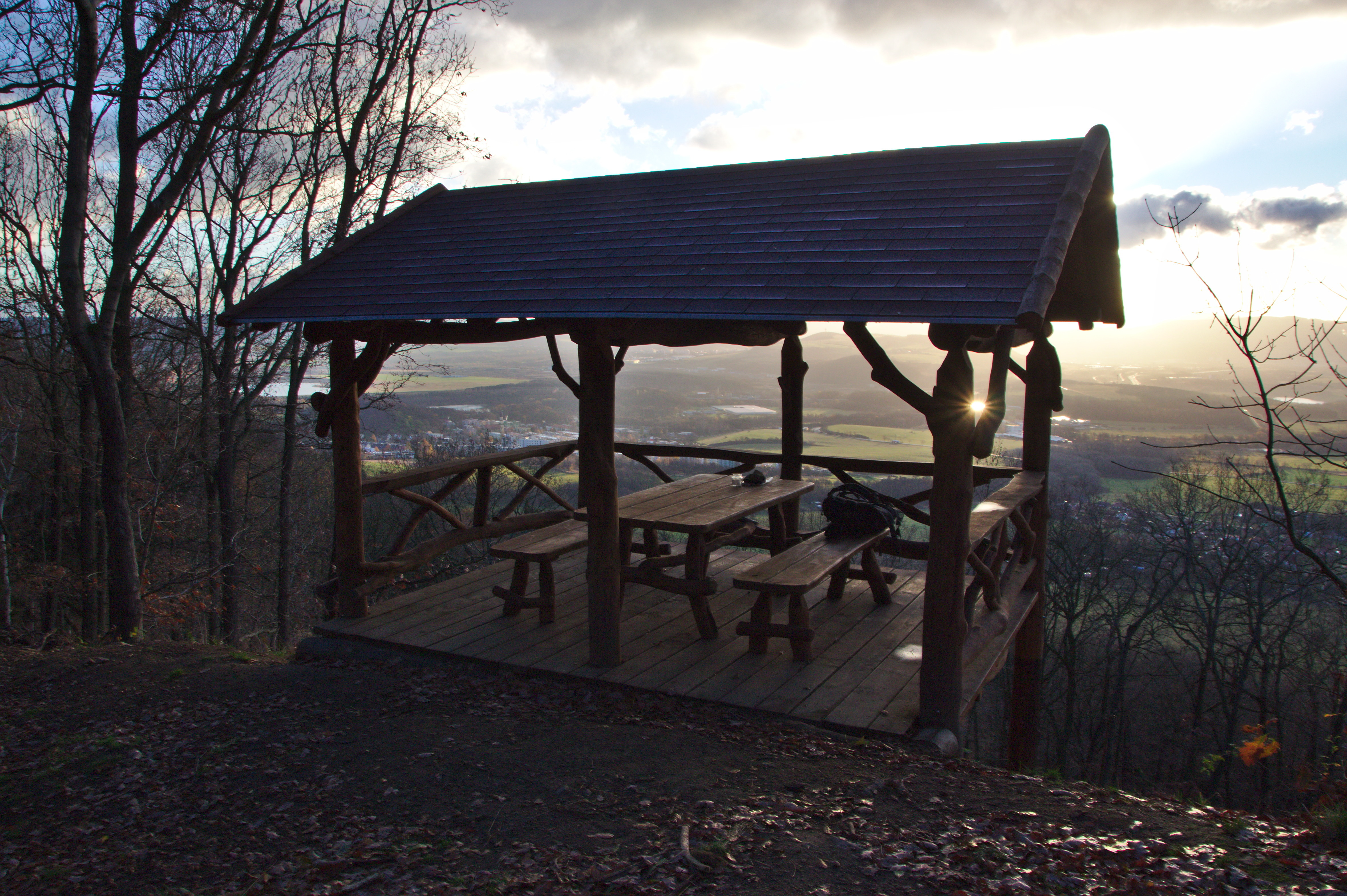 U Laviček viewpoint above Stradov.